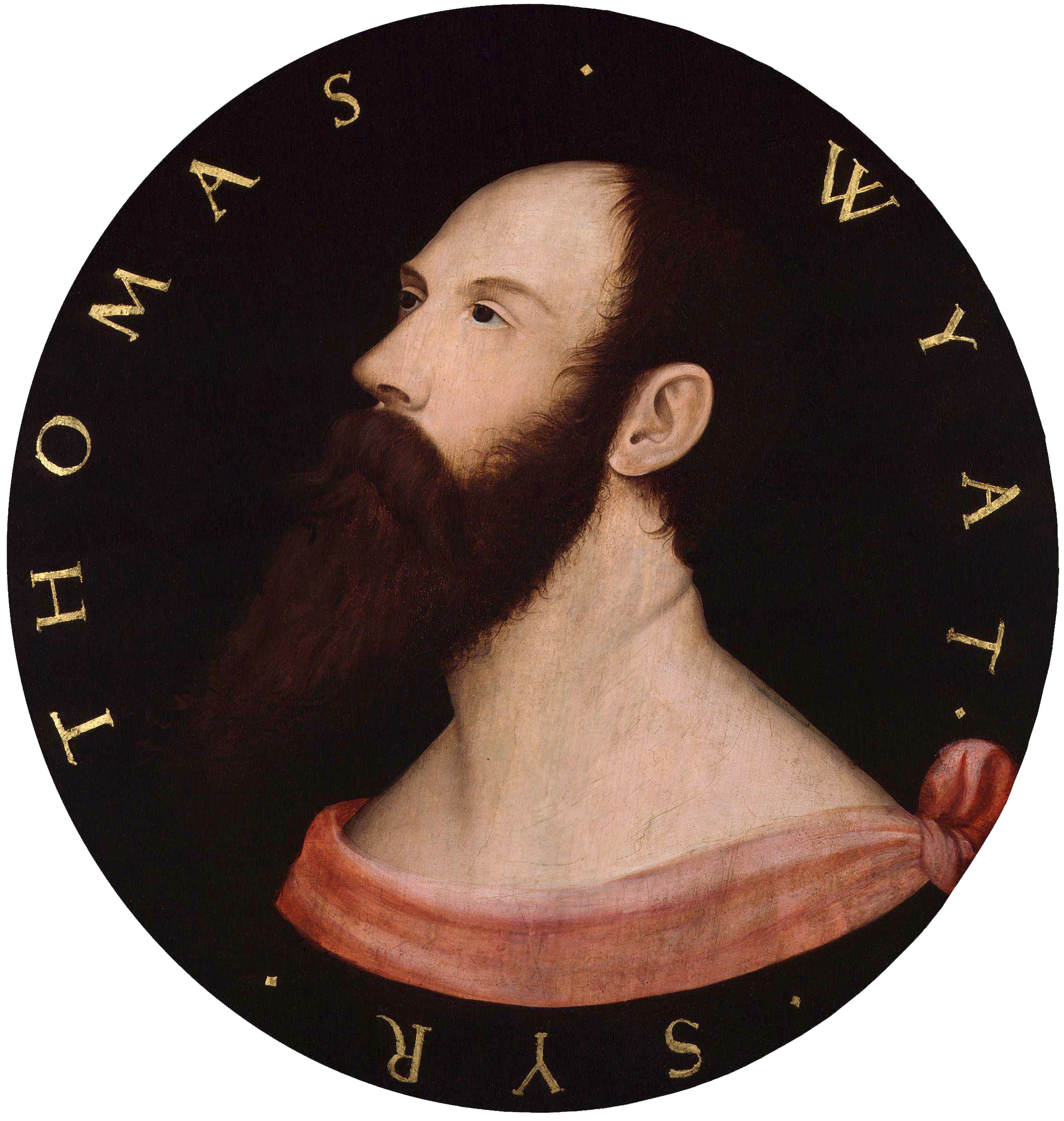 Portrait of Sir Thomas Wyatt. Oil on panel, 47 cm diameter, National Portrait Gallery, London. This oil portrait of Wyatt á l'antique, wearing an antique drape in a medallic composition, derives from a lost drawing or painting by Hans Holbein the Younger of about 1540. Holbein's woodcut for Leland's Naenia, in which Wyatt also wears an antique drape, presumably follows the original version. Four 16th-century copies by other hands survive, of which this is one of two at the National Portrait Gallery (for the other, see "Other versions" below). Thomas Wyatt (1503?–42) was a diplomat and a gifted poet who introduced the Italian sonnet form to England. He was arrested after the fall of Anne Boleyn, whom he had admired in poetry, but he recovered to become ambassador to the Emperor Charles V before being arrested again in 1541. Holbein also designed goldsmiths' work for Wyatt. References Susan Foister, Holbein in England, London: Tate, 2006, ISBN 1854376454, p. 56. K. T. Parker, The Drawings of Hans Holbein at Windsor Castle, Oxford: Phaidon, 1945, OCLC 822974, p. 54. Roy Strong, Tudor and Jacobean Portraits, London: HMSO, 1969, p. 339.